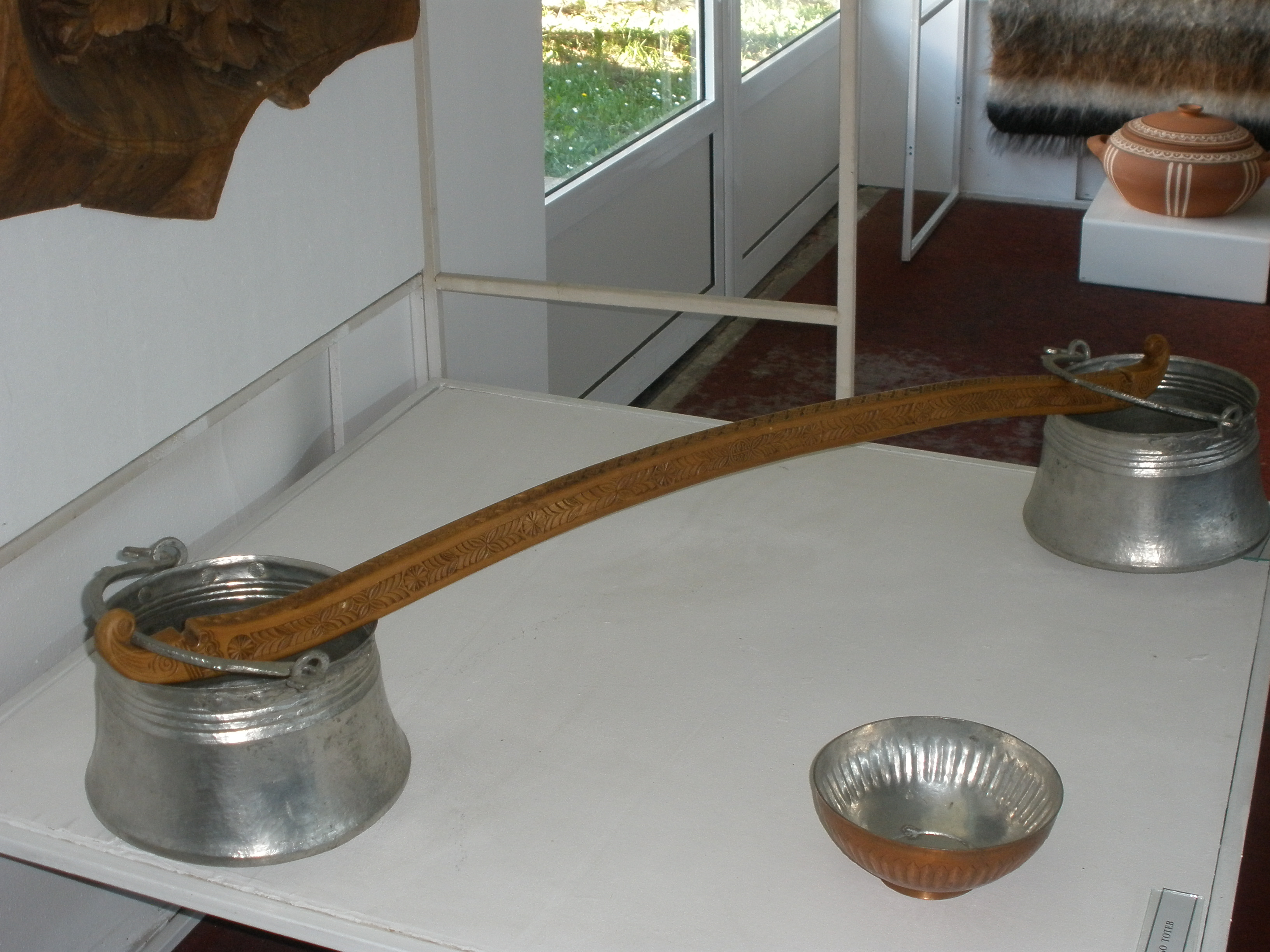 Carrying yoke